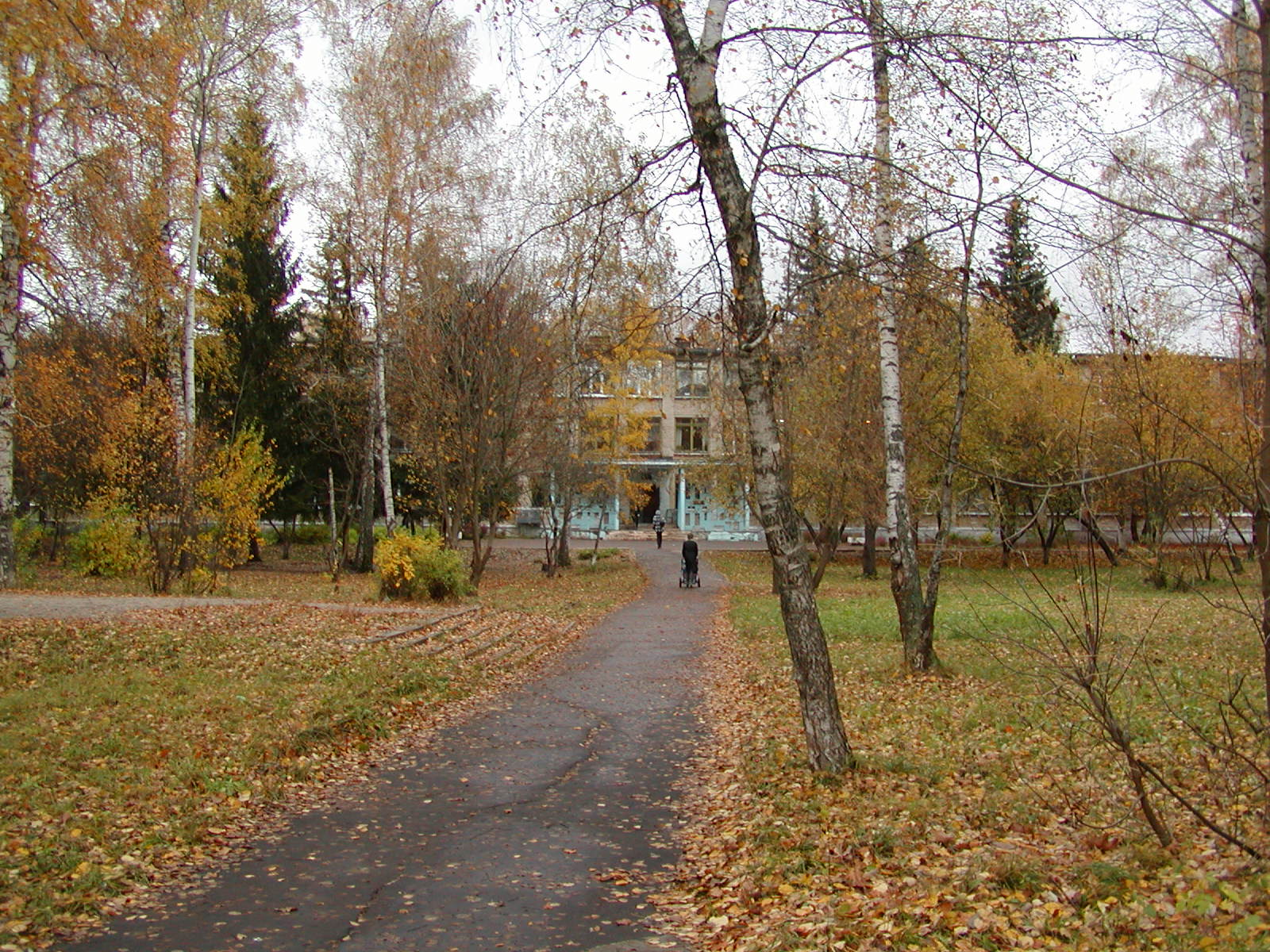 The overview of Obninsk's lycée from a distance.